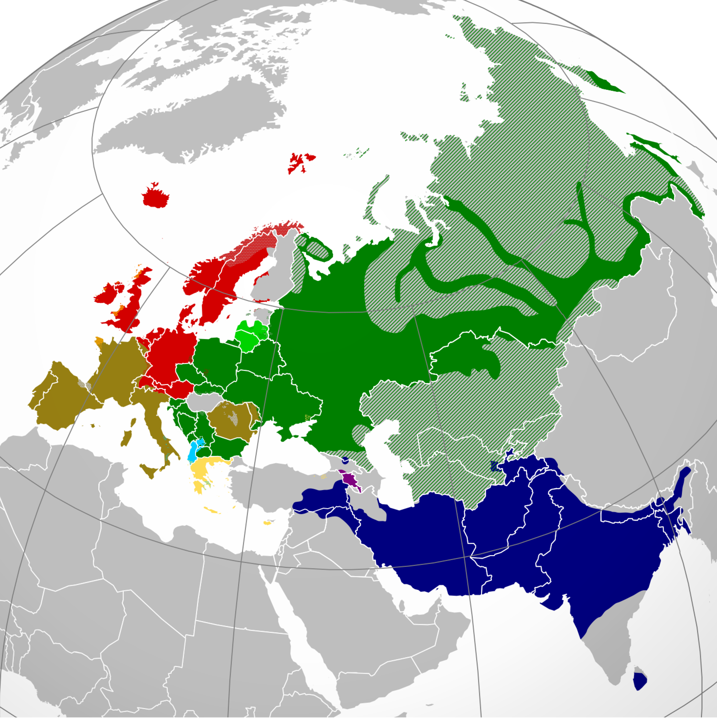 A map showing the approximate present-day distribution of the Indo-European branches within their homelands of Europe and Asia. The following legend is given in the chronological order of the earliest surviving written attestations of each branch: Hellenic (Greek) [1] Indo-Iranian [2] Italic (includes Romance) [3] Celtic [4] Germanic [5] Armenian [6] Balto-Slavic (Baltic) [7] Balto-Slavic (Slavic) [8] Albanian [9] Non-Indo-European languages Dotted/striped areas indicate where multilingualism is common (more visible upon full enlargement of the map).